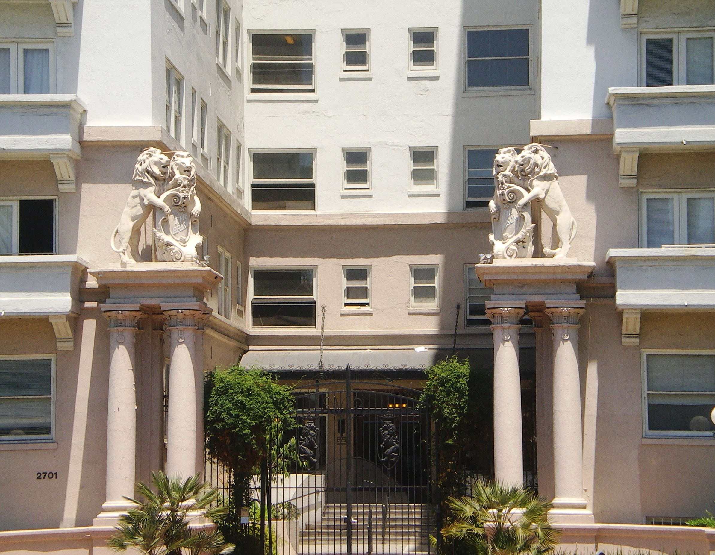 Bryson Apartment Hotel lions, 2701 Wilshire Blvd., Los Angeles, California